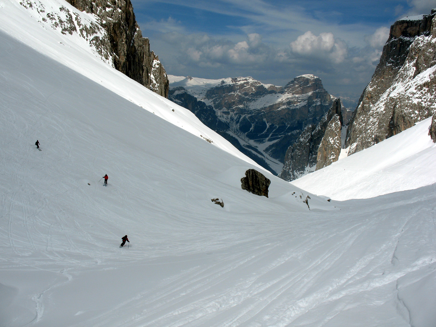 Mittagstal (Ladin: Val de Mesdì) on the Sella in the Dolomites, South Tyrol.